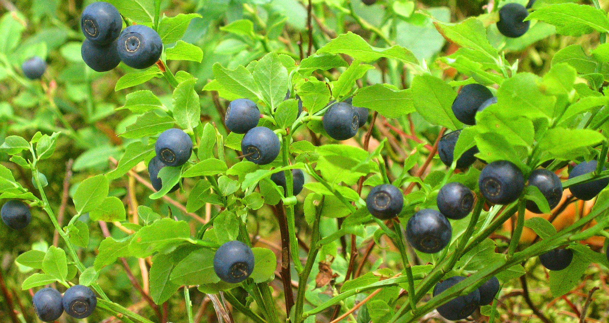 Vaccinium myrtillus, Konnovo, Ardatovskiy rayon, Nizhegorodskaya Oblast, Russia